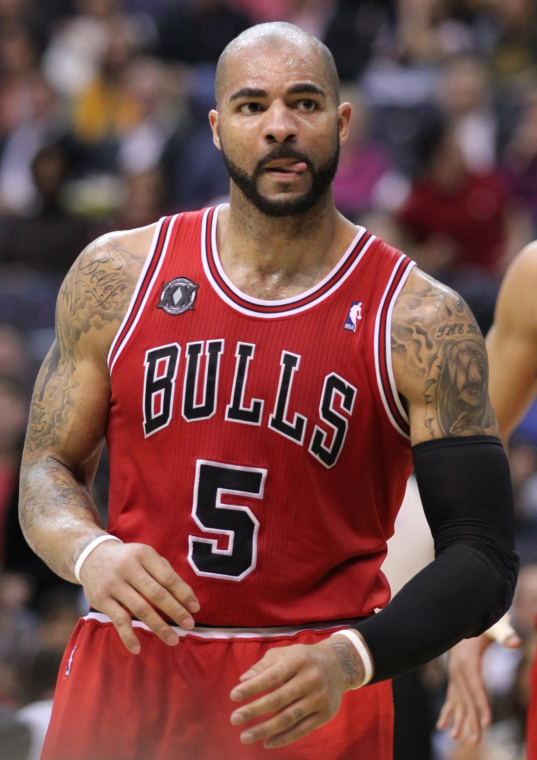 Wizards v/s Bulls 02/28/11